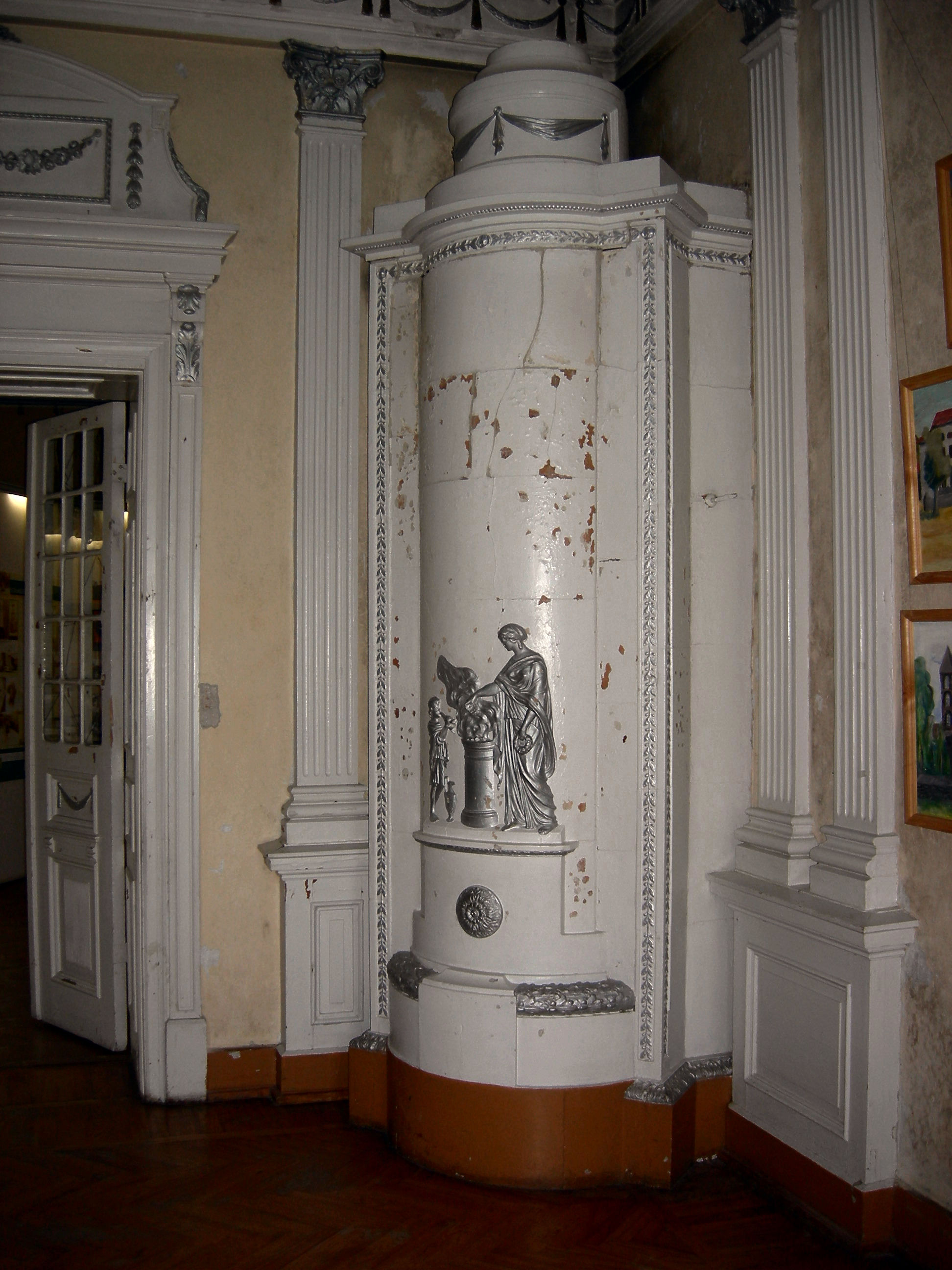 An Art Nouveau style Stameriena palace near Gulbene city